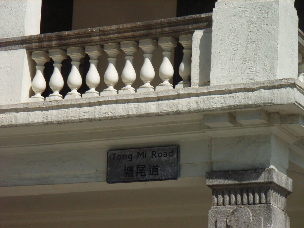 Lui Seng Chun (雷生春) is a historical 4-storey building on 119 Lai Chi Kok Road, Hong Kong